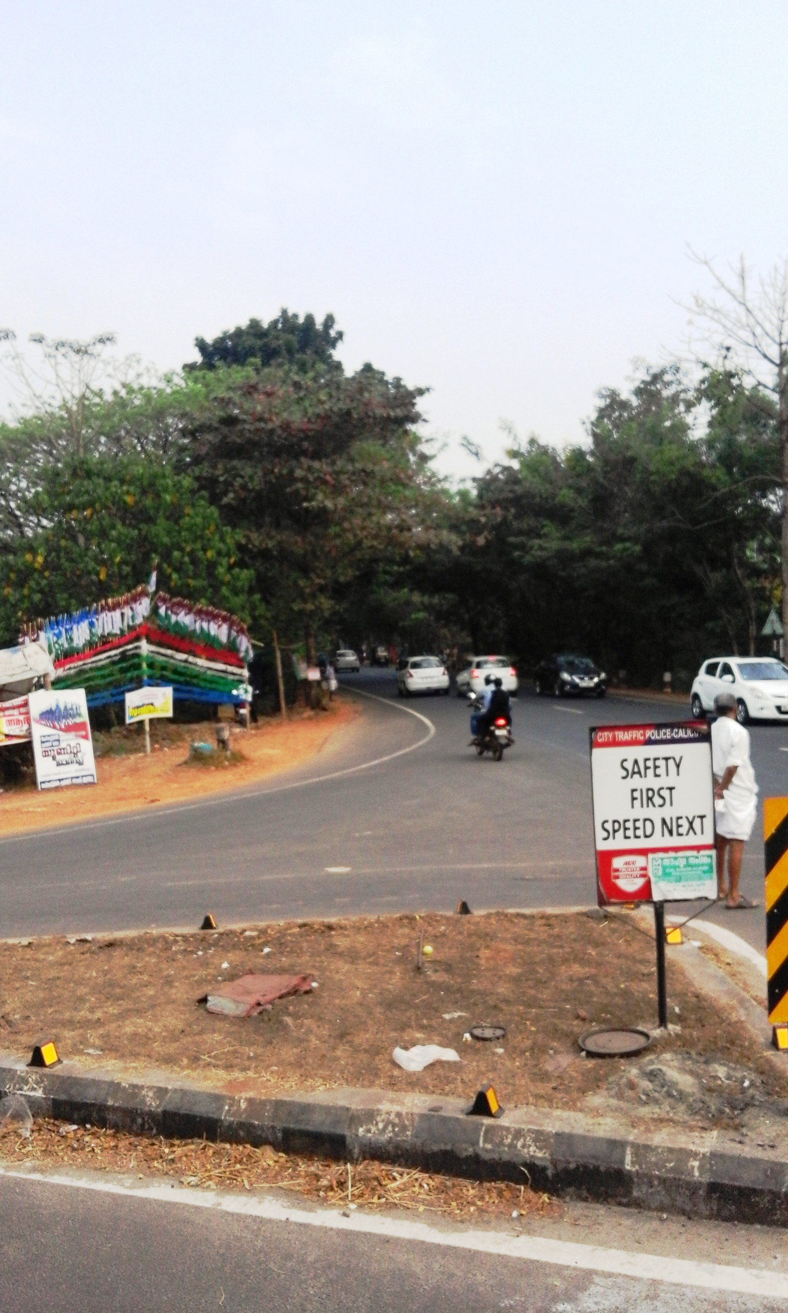 Malappuram District, Kerala province, India.